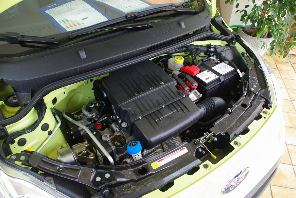 Ford Duratec 1.2 8V engine (relabelled Fiat FIRE 1242cc) in a 2009 KA.